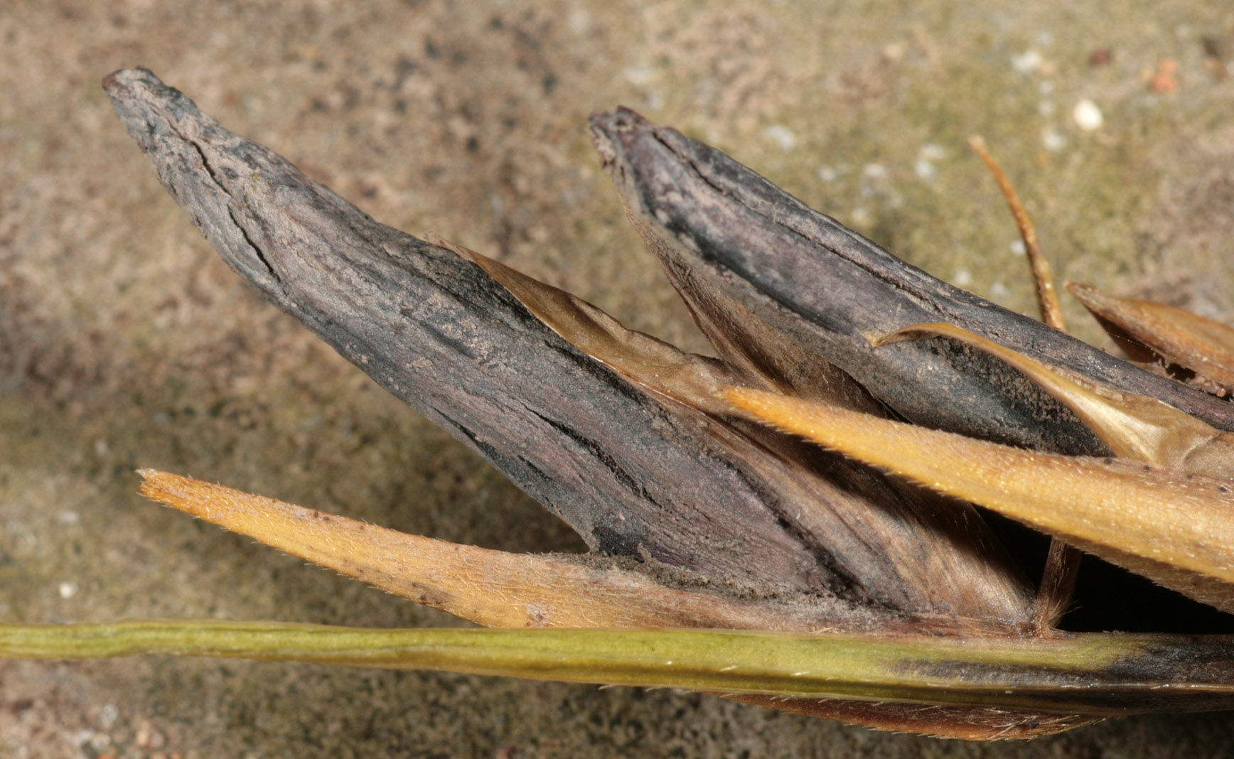 Longitude (deg): -2.9. Latitude (deg): 51.3. Longitude (deg/min): 2° 60' W. Latitude (deg/min): 51° 20' N. Vice county name: North Somerset. Vice county no.: 6. Country: England. Stage: Resting stage. Associated species: Spartina. Identified by: Malcolm Storey. Comment: Large ergots growing on spikelets of Spartina on muddy beach. Category: standard photograph or close-up. Image scaling: enlarged. Real world width(mm): 0. Photographic equipment used: Canon EOS400D digital SLR with Tamron SP AF Di 90mm Macro 1:1 lens